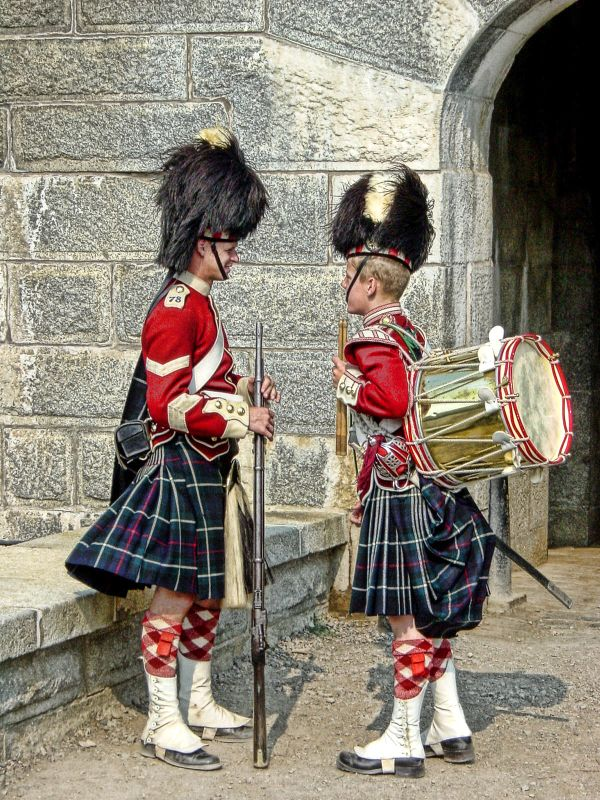 Reenactors at Citadel Hill (Fort George), a National Historic Site of Canada in Halifax, Nova Scotia, Canada.